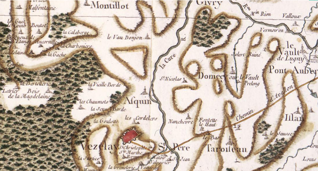 Cassini map, Asquins area (south of Yonne departement).